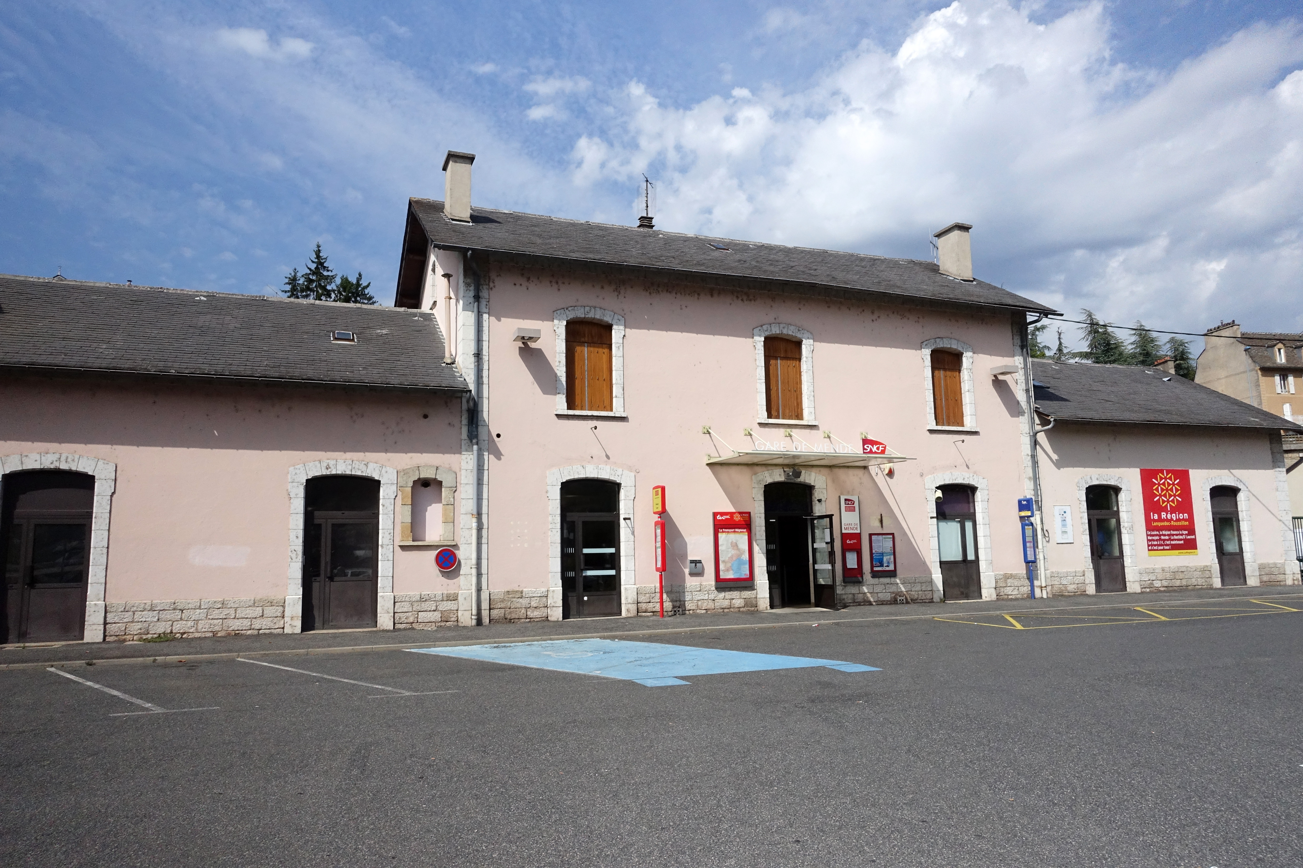 Mende station